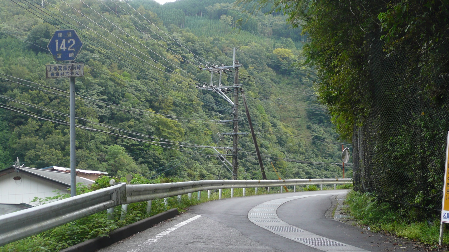 Miyazaki Prefectural Road 142 (Rokuyata, Shiiba, Miyazaki, Japan)